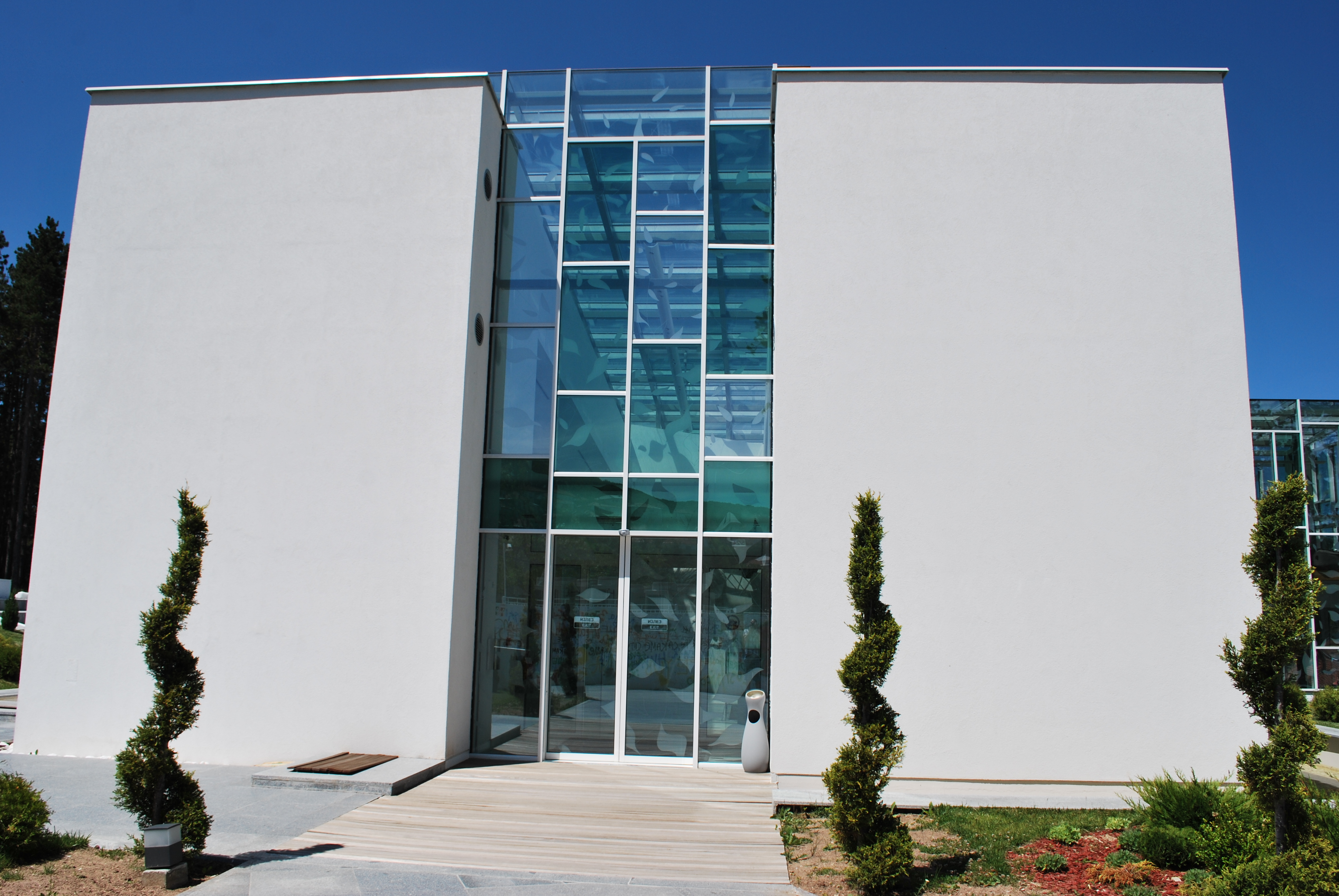 Todor Proeski Memorial House in Kruševo, Macedonia